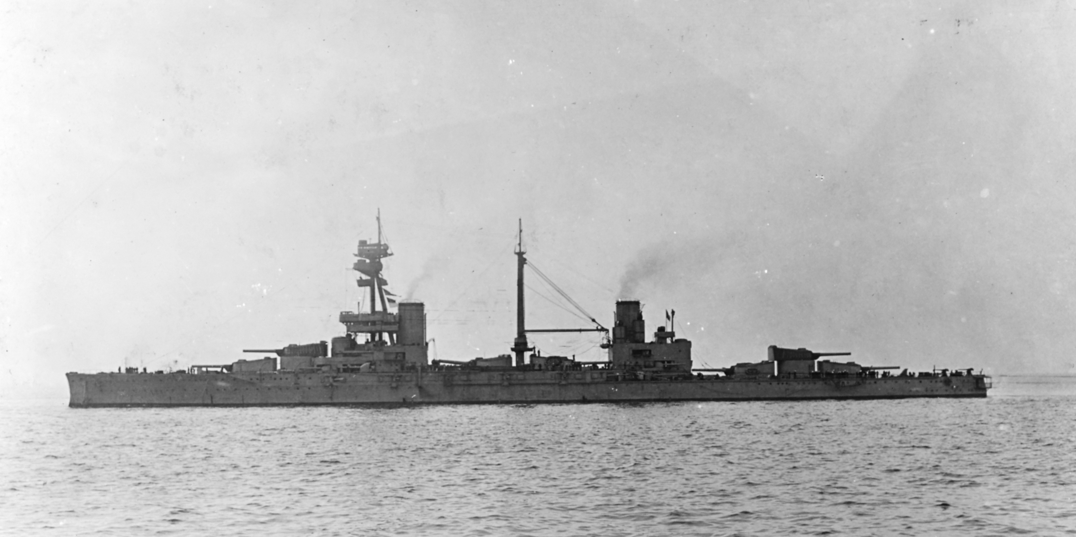 Photo # NH 89142 HMS Agincourt Photographed in 1918.